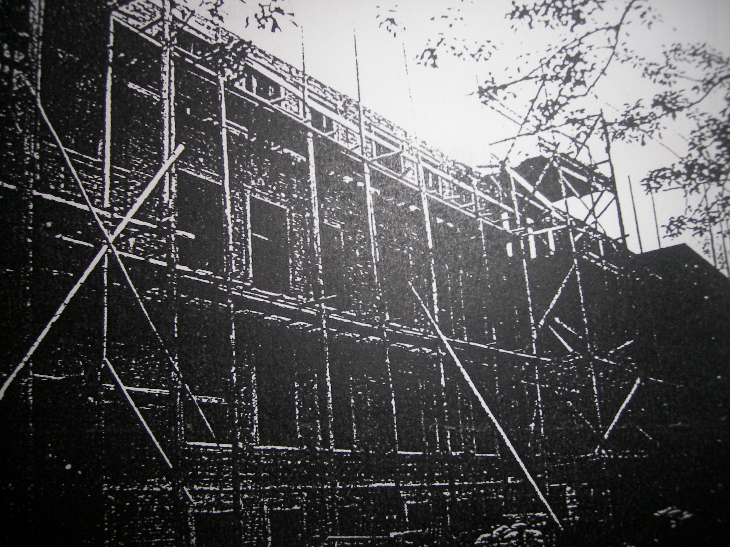 Bauarbeiten 1912-1914